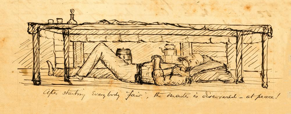 Charles Rawson at peace asleep under the dining table. Charles Rawson relaxing under the table on Boxing Day.